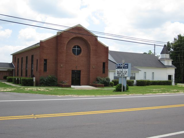 Holt, Florida. First Baptist Church on Highway 90.